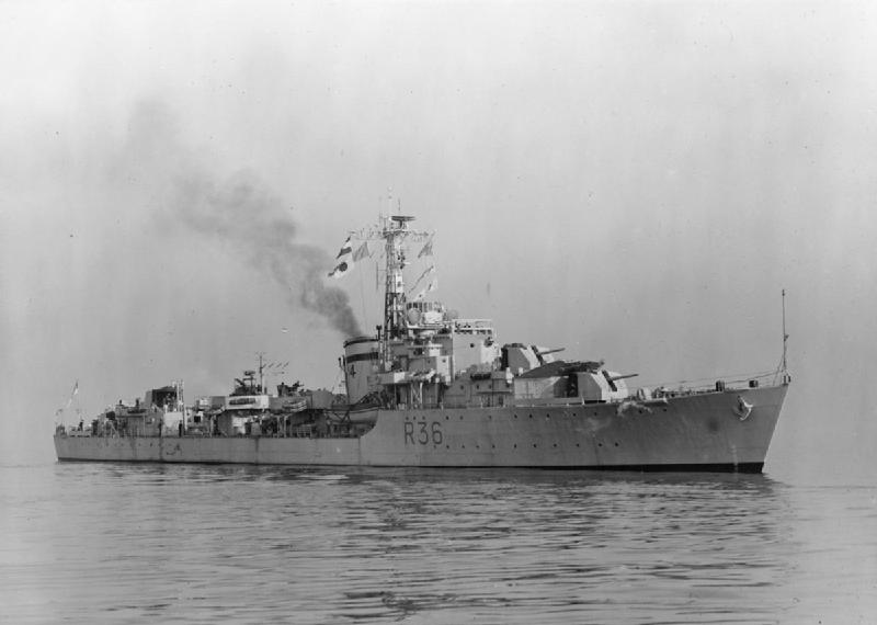 Photograph of British C class destroyer HMS Chieftain, on the River Clyde on completion.